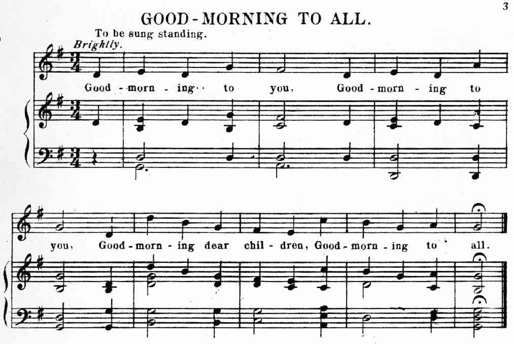 Music and lyrics of the song "Good Morning to All", the basis for the song "Happy Birthday to You" (copyright vacated 2015).